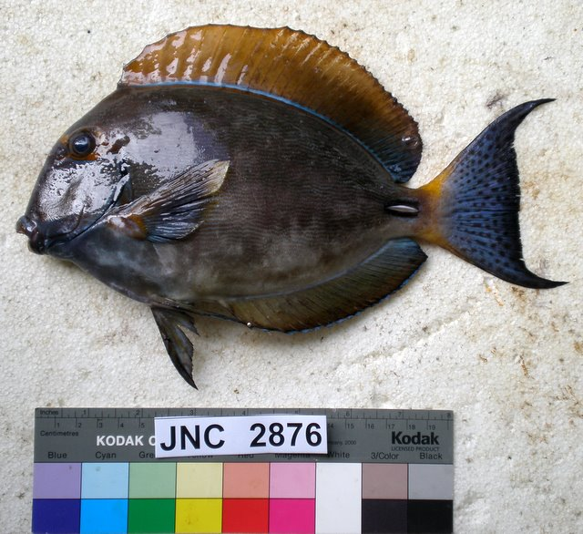 Acanthurus dussumieri. Locality: from Fish market, Nouméa, New Caledonia. Fork length 239 mm, Weight 366 grams. Date 2009/03/12.